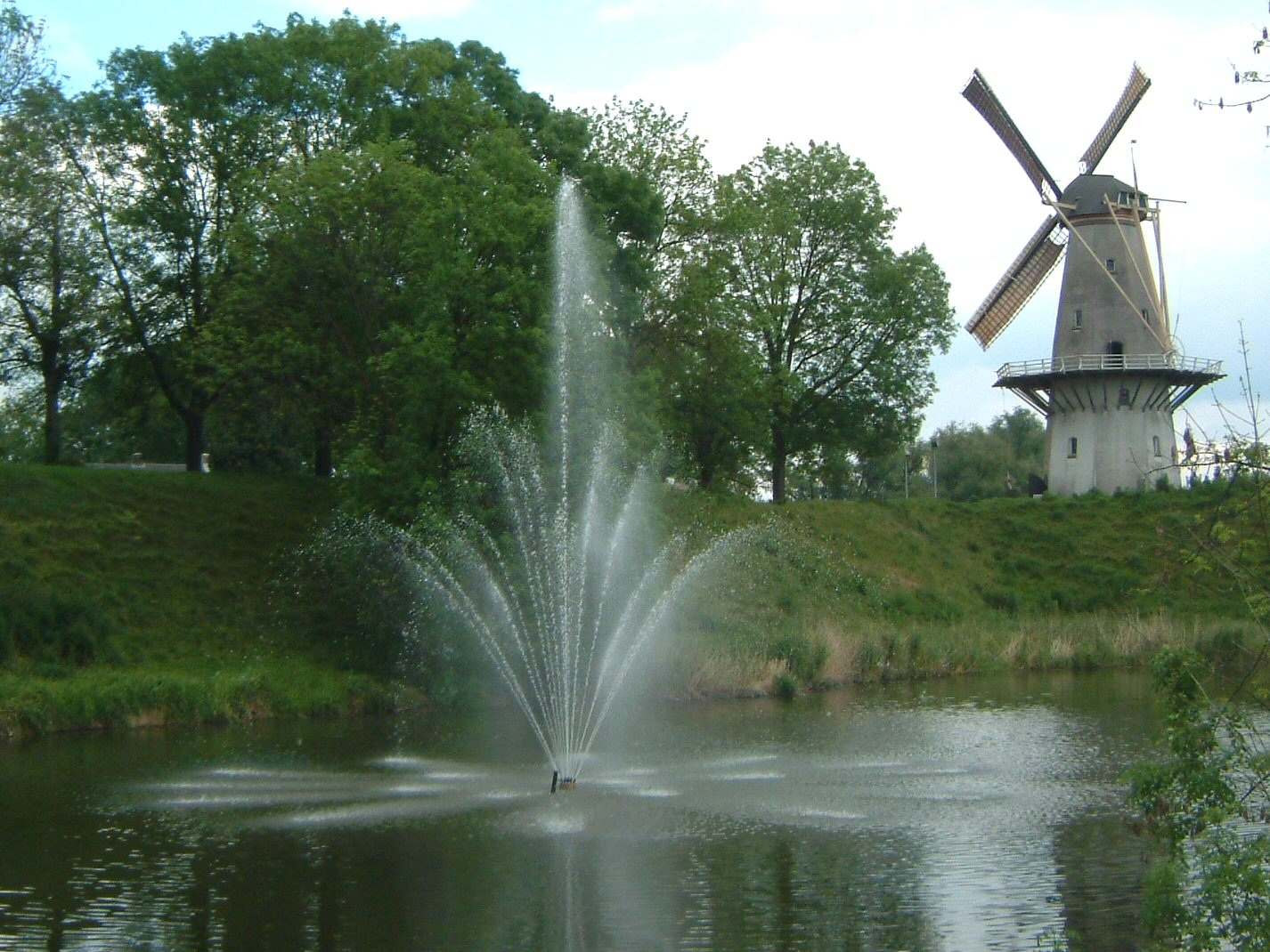 Fountain near the Koepoort and Nooit Gedagt windmill in Woudrichem